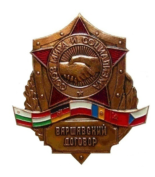 Badge Warsaw Pact. The Union for peace and socialism